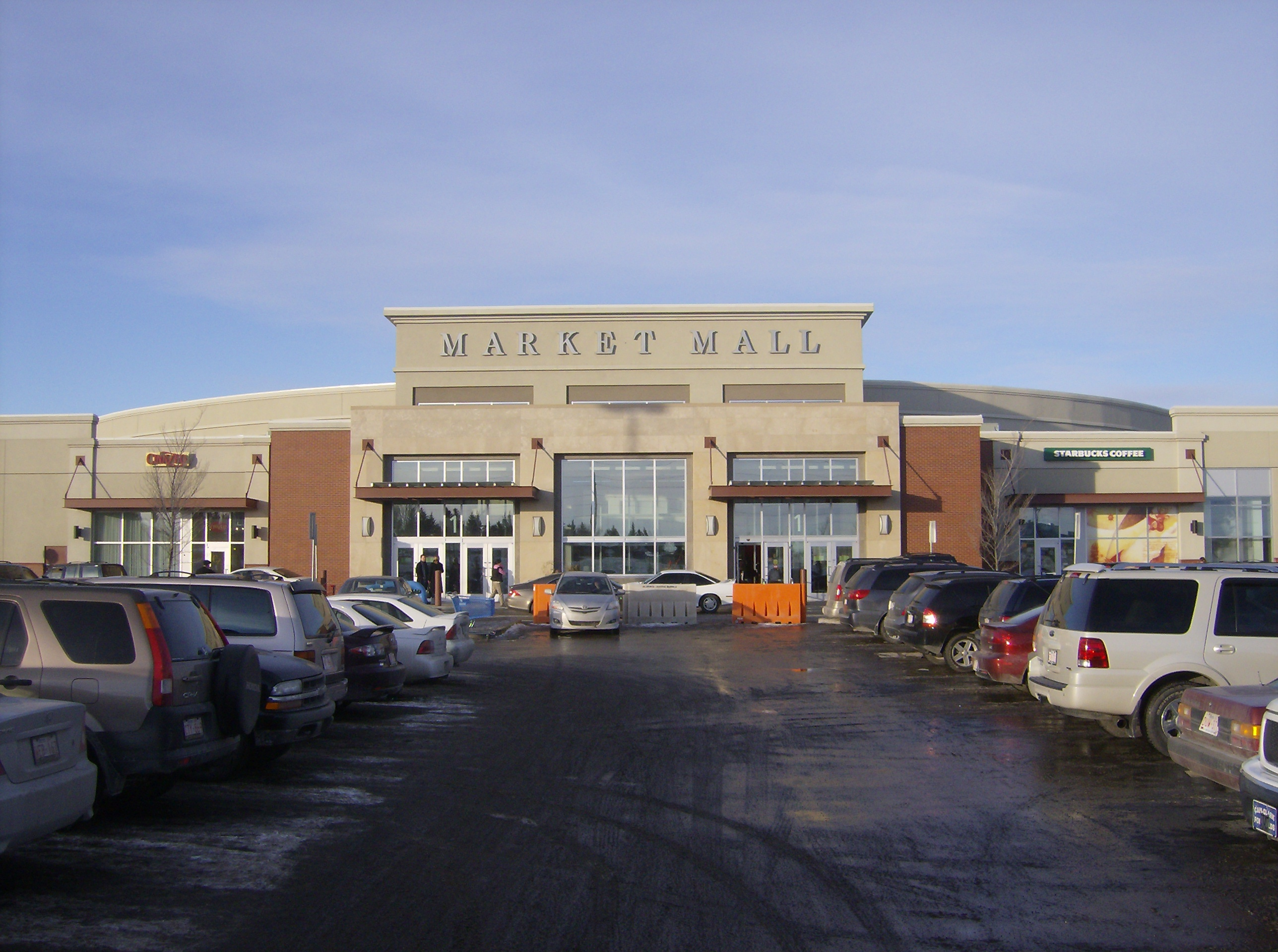 Market Mall in Calgary, Alberta, Canada. This Entrance #1.